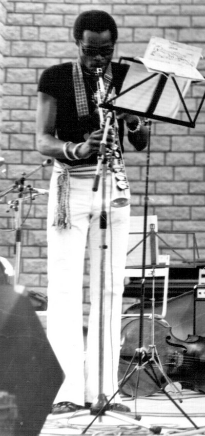 American jazz saxophonist Steve Potts in France